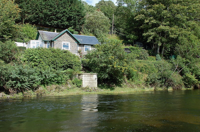 The cottage is so called as there was once a private footbridge here for the Kingsmeadows estate. The bridge abutment on the N bank can be seen below the cottage. The bridge was a suspension type; it was destroyed by trees carried down by a flood many years ago. A photograph (undated) is given in 'Peebles Remembered' (The Tweeddale Society, Peebles 2005), source of this information on the bridge's history.